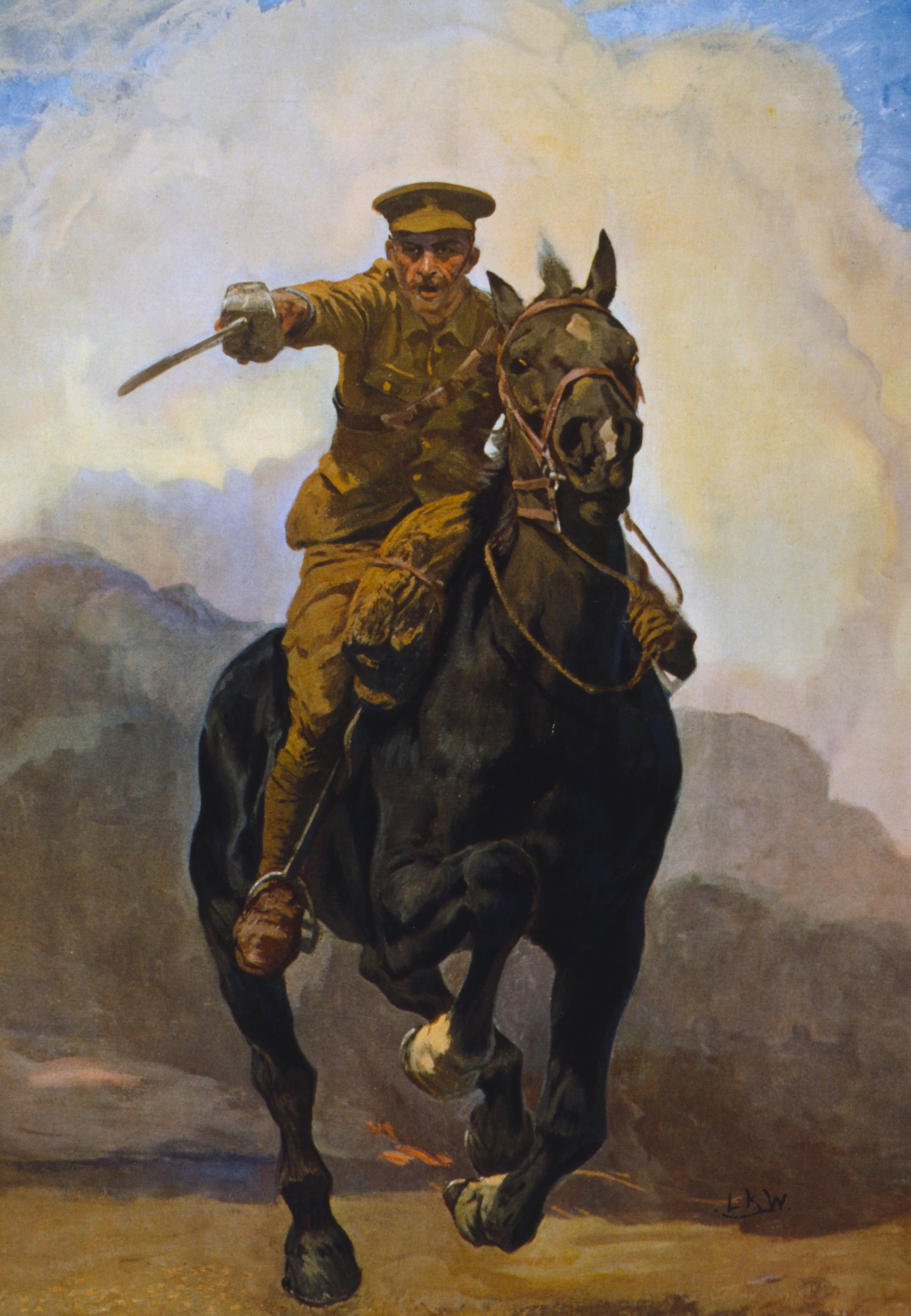 Title: Forward! Forward to victory. Enlist now / L.K.W. ; printed by David Allen & Sons, Ltd., Harrow, Middlesex. Date Created/Published: London : Parliamentary Recruiting Committee, [1915] Medium: 1 print (poster) : lithograph, color ; 76 x 49 cm. Summary: Poster showing a mounted soldier brandishing a sword, his horse at full gallop. Reproduction Number: LC-USZC4-11027 (color film copy transparency) Rights Advisory: No known restrictions on publication. For information see "World War I Posters" ( Call Number: POS - WWI - Gt Brit, no. 104 (C size) [P&P] Repository: Library of Congress Prints and Photographs Division Washington, D.C. 20540 USA